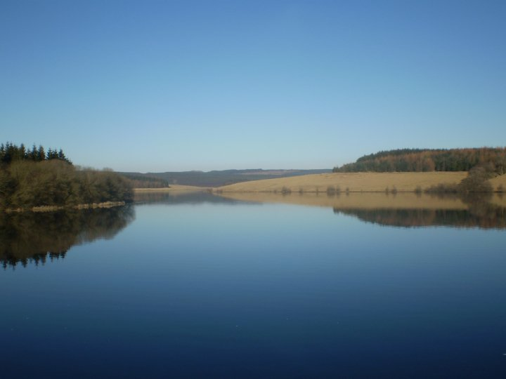 A View of Stocks Reservoir, Lancashire